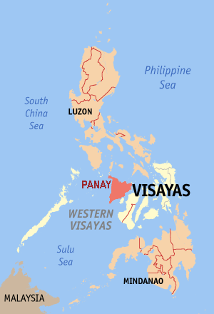 Map of the Philippine island Panay